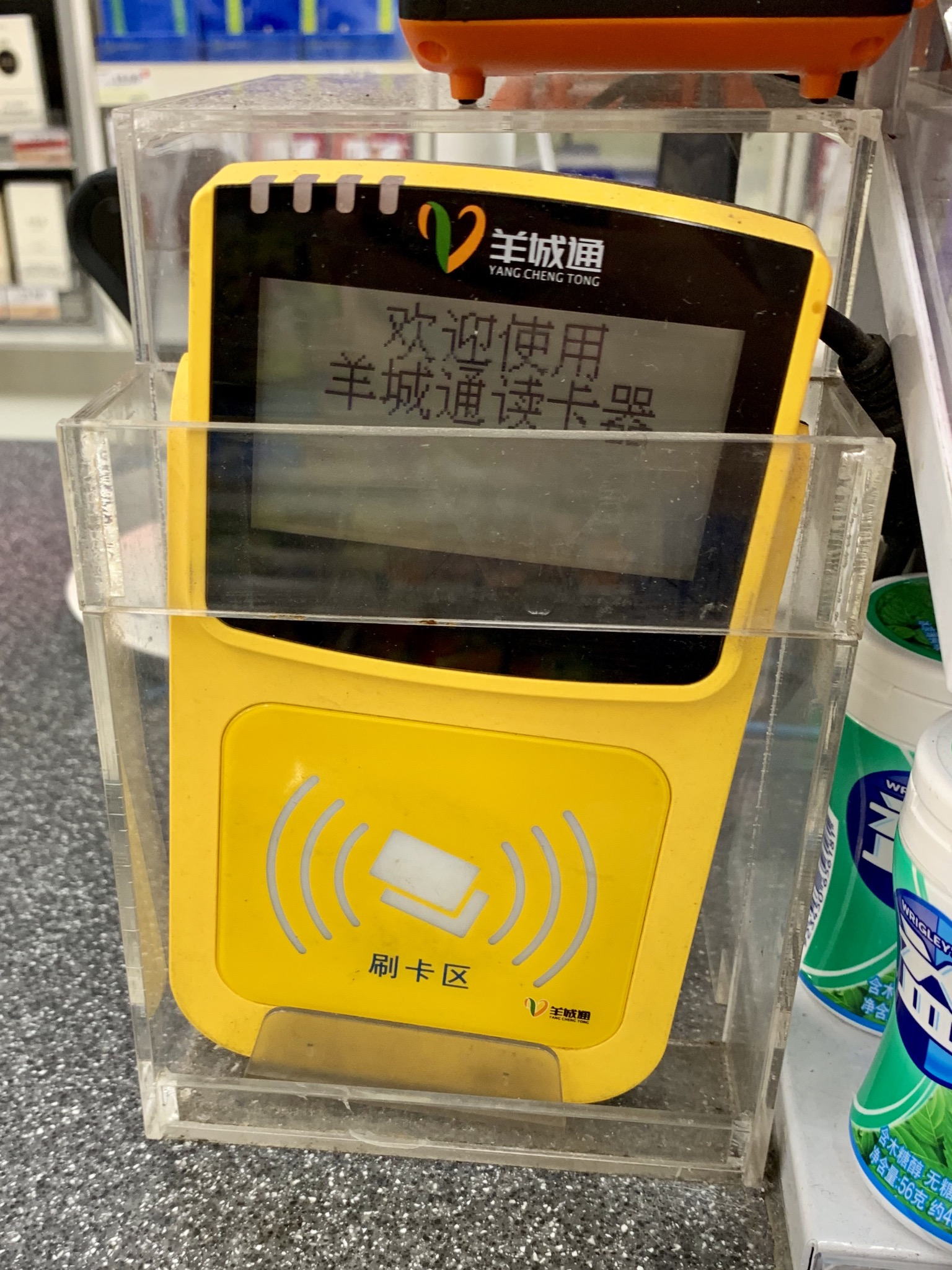 A Yang Cheng Tong (Ram City Pass) Card Reader in Guangzhou's 7-Eleven store.